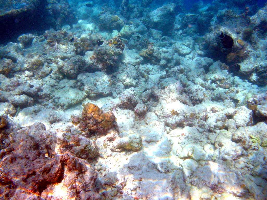 A part of Moofushi's bleached coral reef (Alifu Dhaalu Atoll, Maldives), damaged by warming sea temperatures. It was strongly hit by 1998's El Niño; no live coral is still practically visible 8 years later.